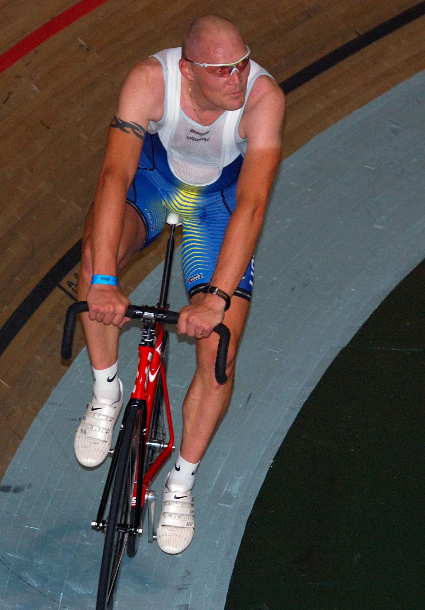 Magnus Bäckstedt sporting typical cyclist tan - Revolution 17 - Track Cycling - Manchester Velodrome